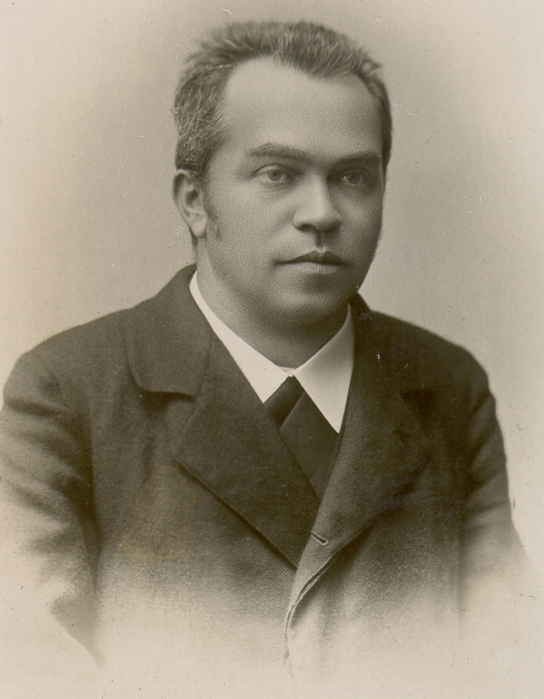 Anton Aškerc (1856-1912), slovene poet.